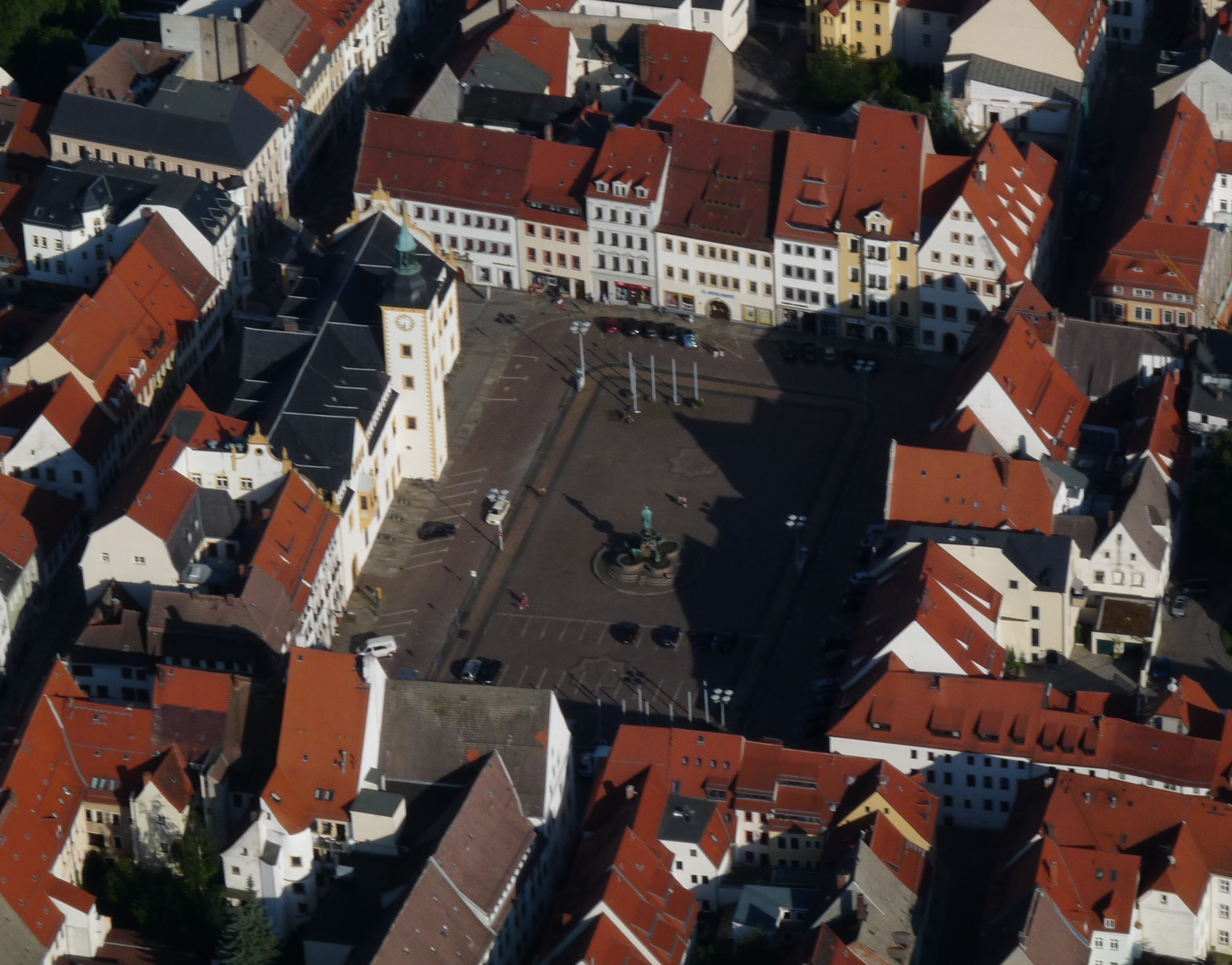 Upper market of Freiberg in Saxony